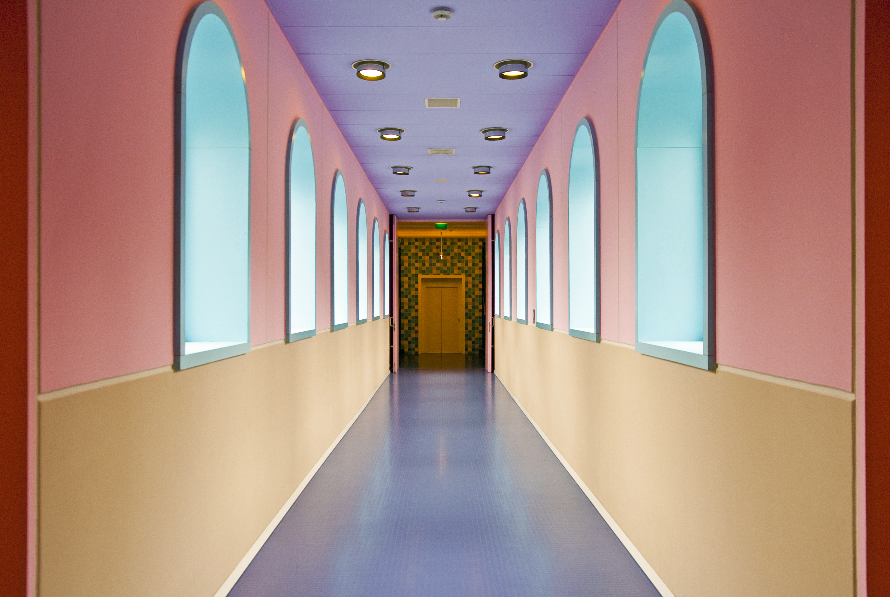 Inside the Groninger Museum ... Explore # 227 on 22.Aug.2009 '